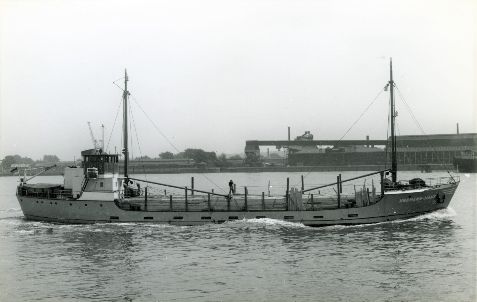 German coaster HERMANN-HANS (IMO 5148998) built at Rickmers Werft, Bremerhaven, in 1950 (yard № 246), lengthened in 1952, photo by T. Rayner, collection J. Robert Boman (1926 - 2002) owned by Sjöhistoriska museet.